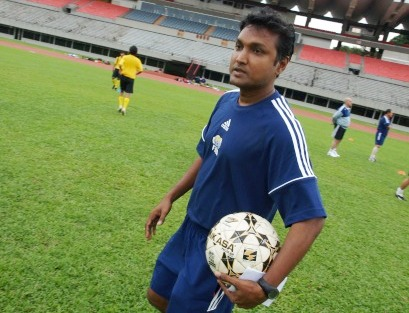 sundramoorthy